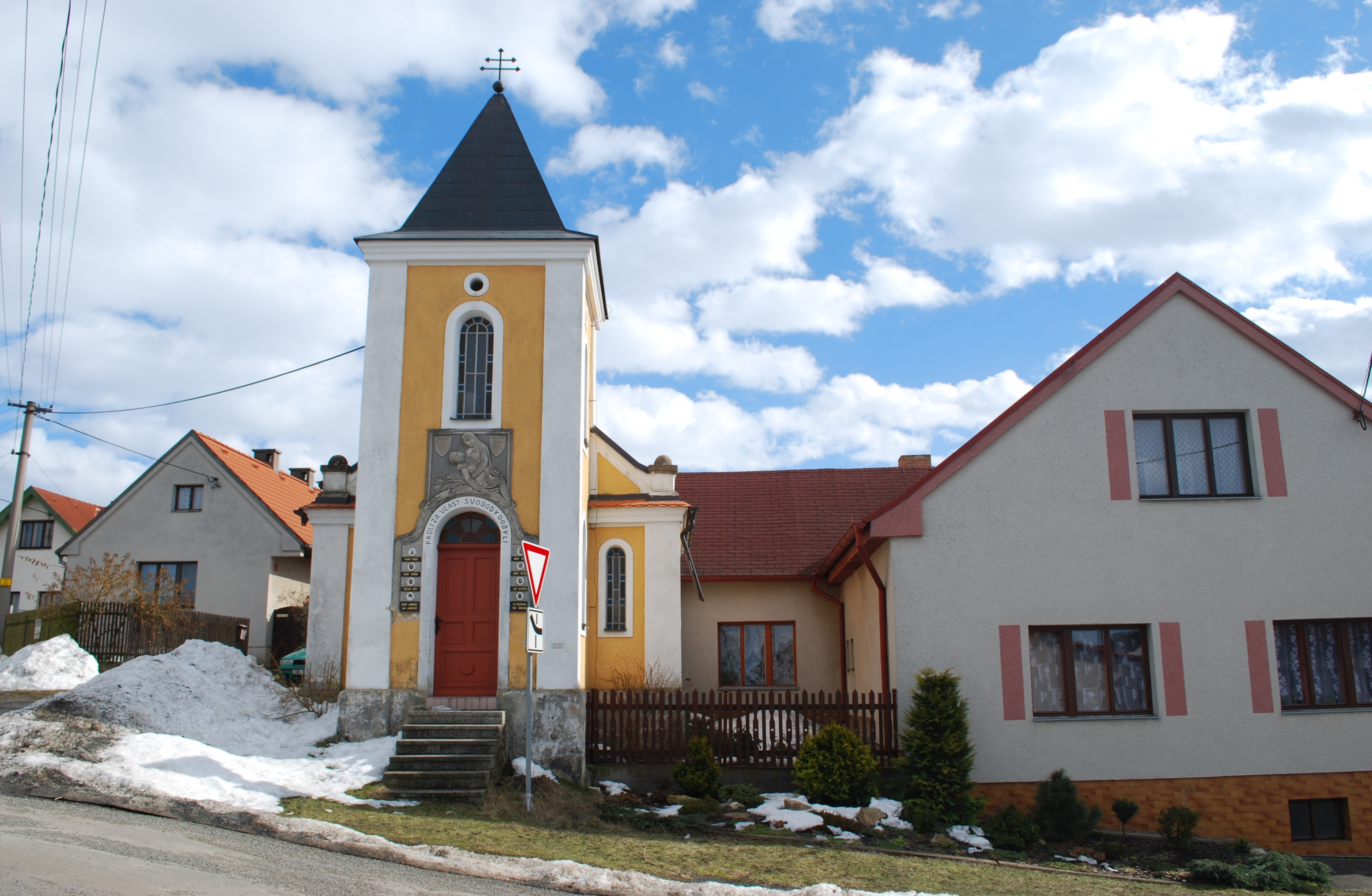 "Kotrbova" chapel in Dobřejice village, part of Malšice in Tábor District, Czech Republic This photograph was taken within the scope of the 'Czech Municipalities Photographs' grant. - OpenStreetMap(Info)